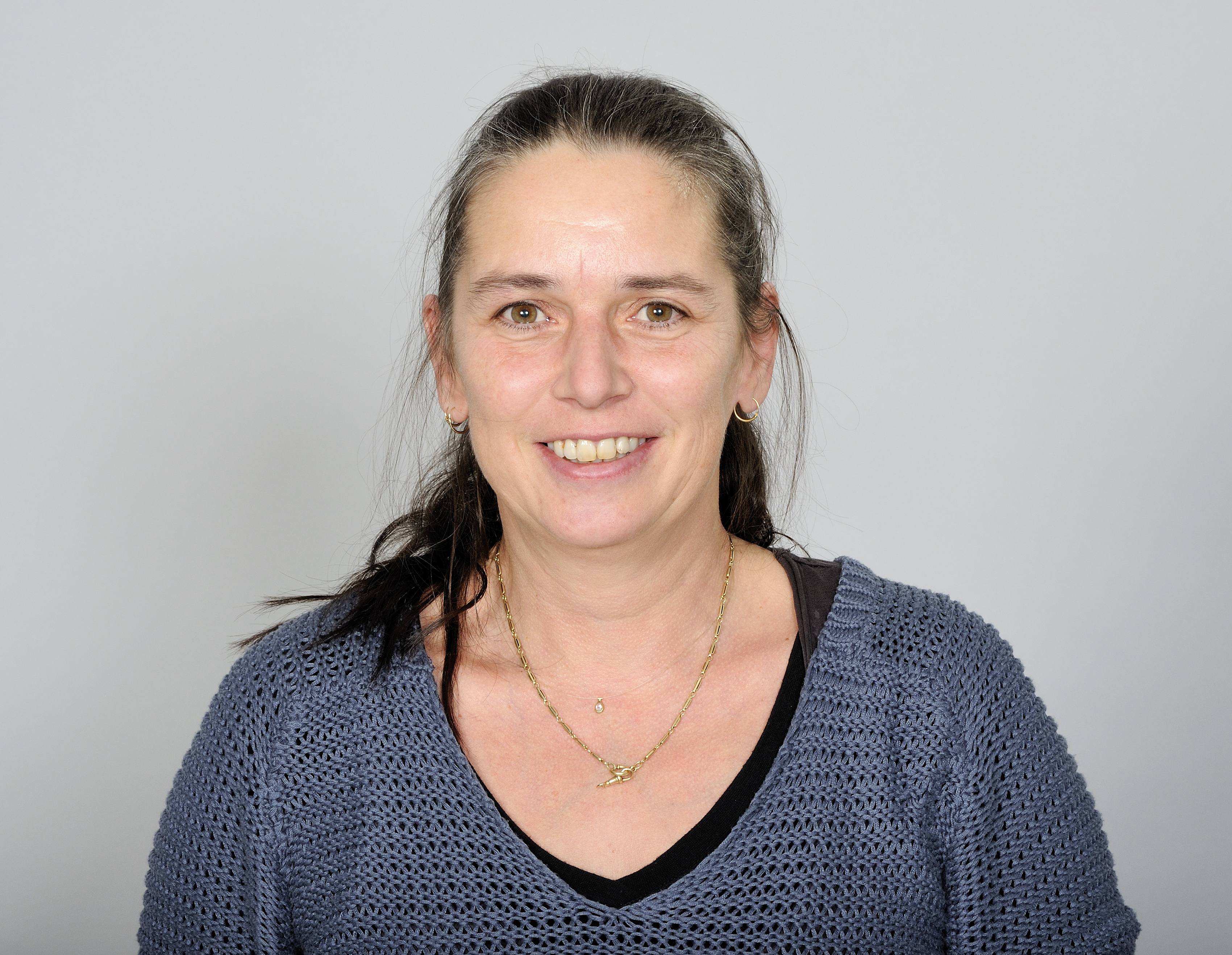 Uta-Verena Meiwald, Saxon politician (Die Linke) and member of the Landtag of the Free State of Saxony (as of 2013).